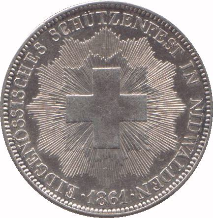 1861 Shooting Thaler Obverse